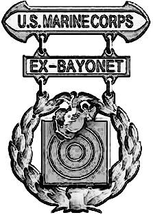 Digital painting of former U.S. Marine Corps Basic Badge with Expert Bayonet bar